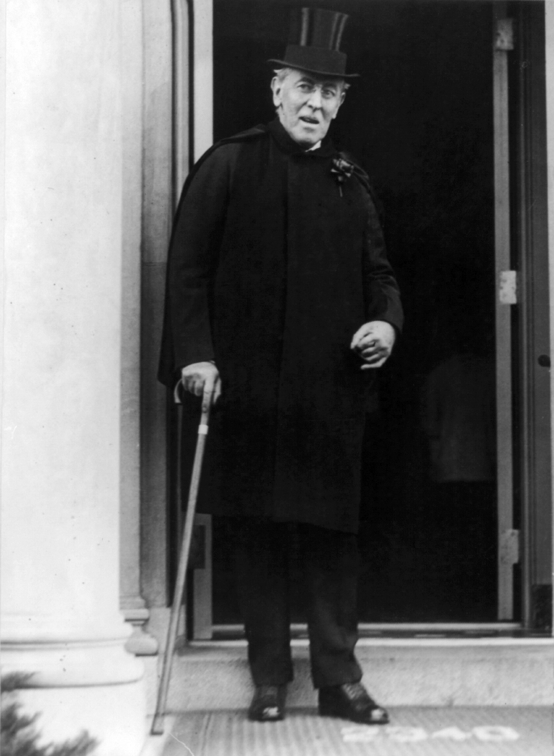 Woodrow Wilson, U.S. President. Full lgth., standing, facing slightly right; outside of door of his Washington home on his 65th anniversary.